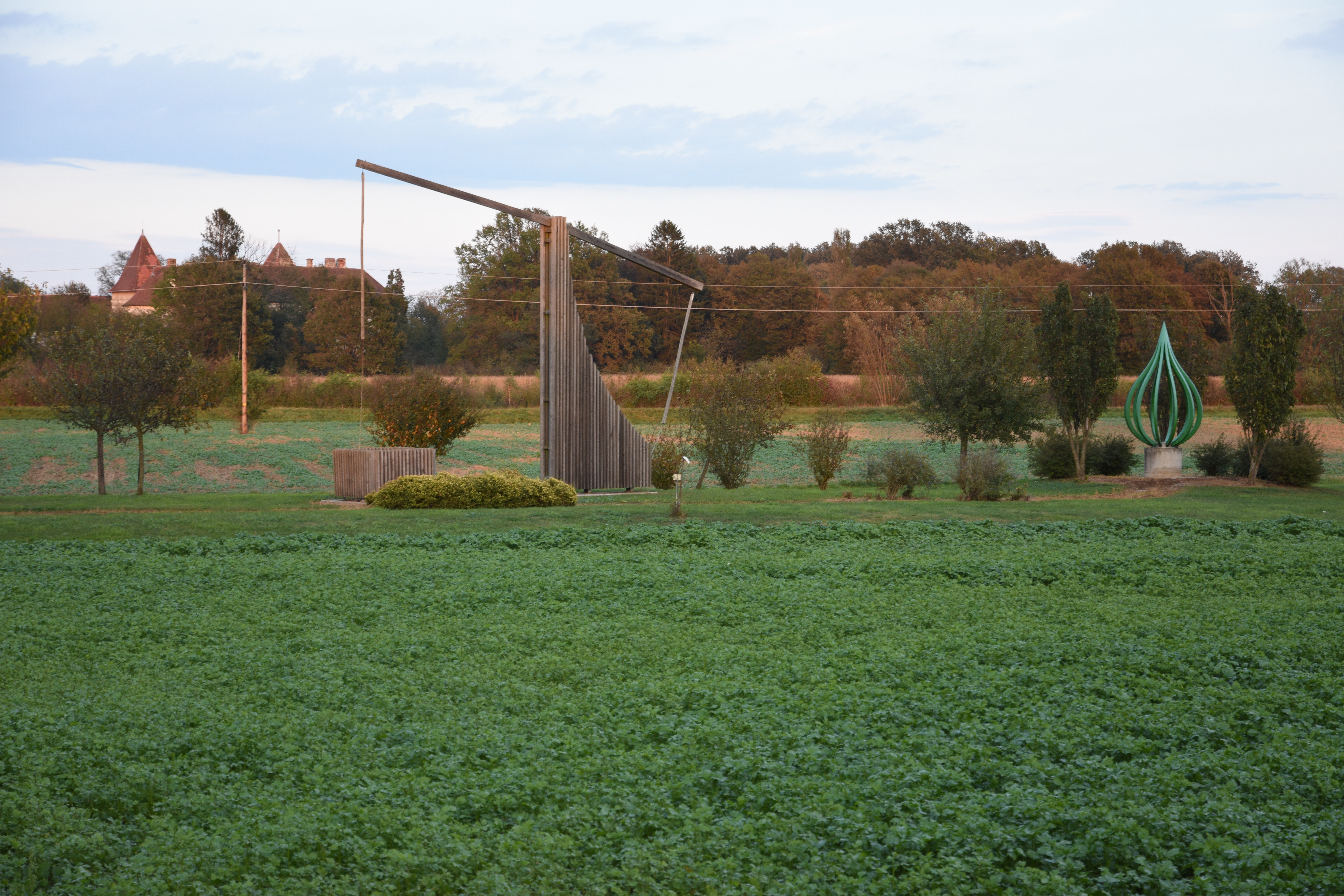 Castle Eberau